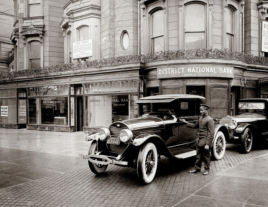 District National Bank of Washington branch office located in the Dupont Circle neighborhood of Washington, D.C. District National Bank was organized in 1909 by Colonel Robert Newton Harper, co-founder of the American National Bank of Washington and senior member of the banking firm Harper & Co. In 1911, the ten-story District National Bank Building was constructed at 1406 G Street, NW, (demolished; site now occupied by Metropolitan Square) which served as the company's headquarters. As a result of the 1933 banking crisis, District National Bank failed and became one of eight banks merged and reorganized as Hamilton National Bank.